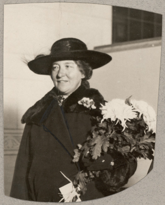 Mathilde Malling Hauschultz (1885-1929). Overretssagfører / barrister. Det Konservative Folkeparti/ The Conservatives. Folketinget 1918-29. KB id: ke017025 Department of Maps, Prints and Photographs, The Royal Library, Denmark.